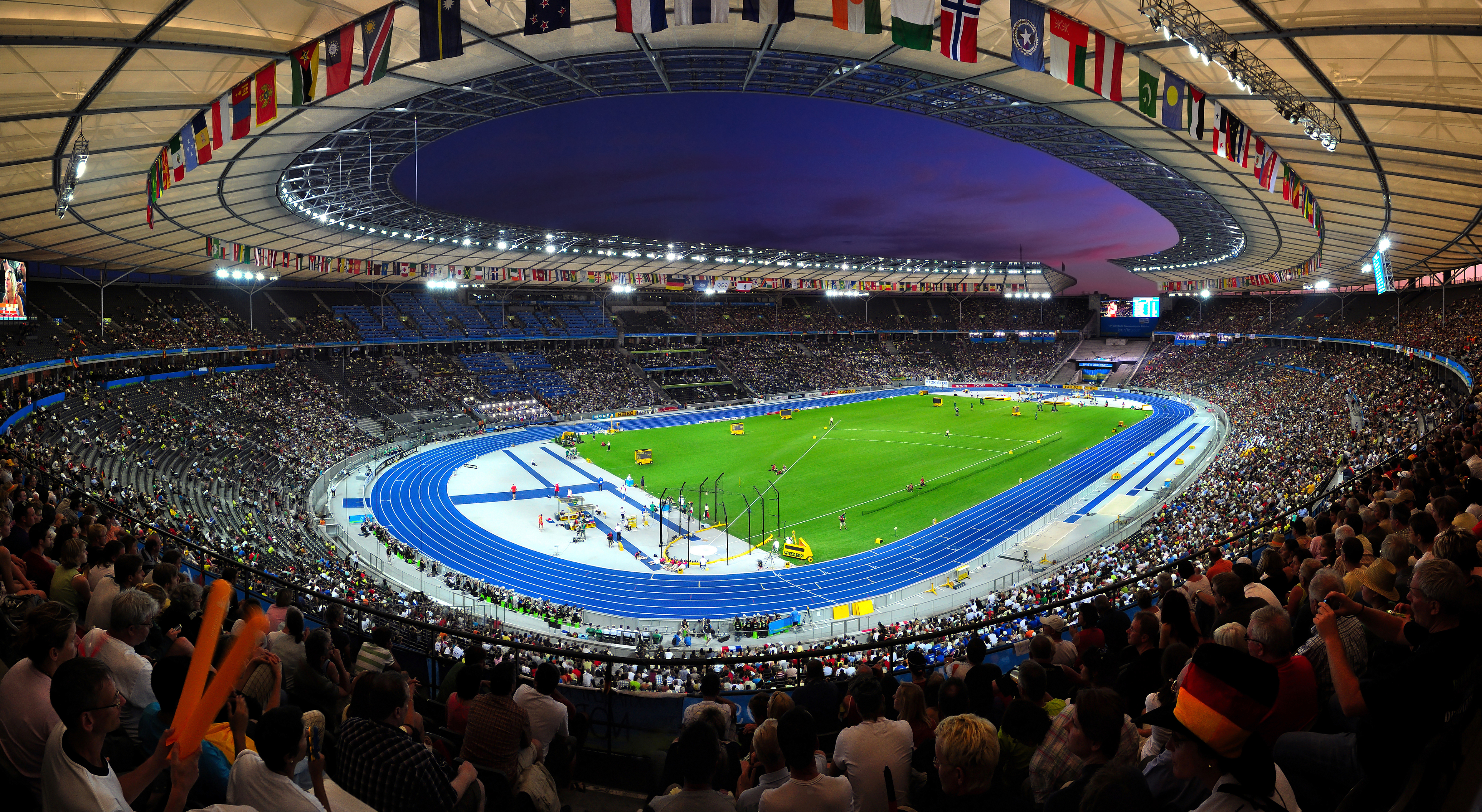 Panoramic view of the olympic stadium of Berlin during the 12th IAAF World Championships in Athletics